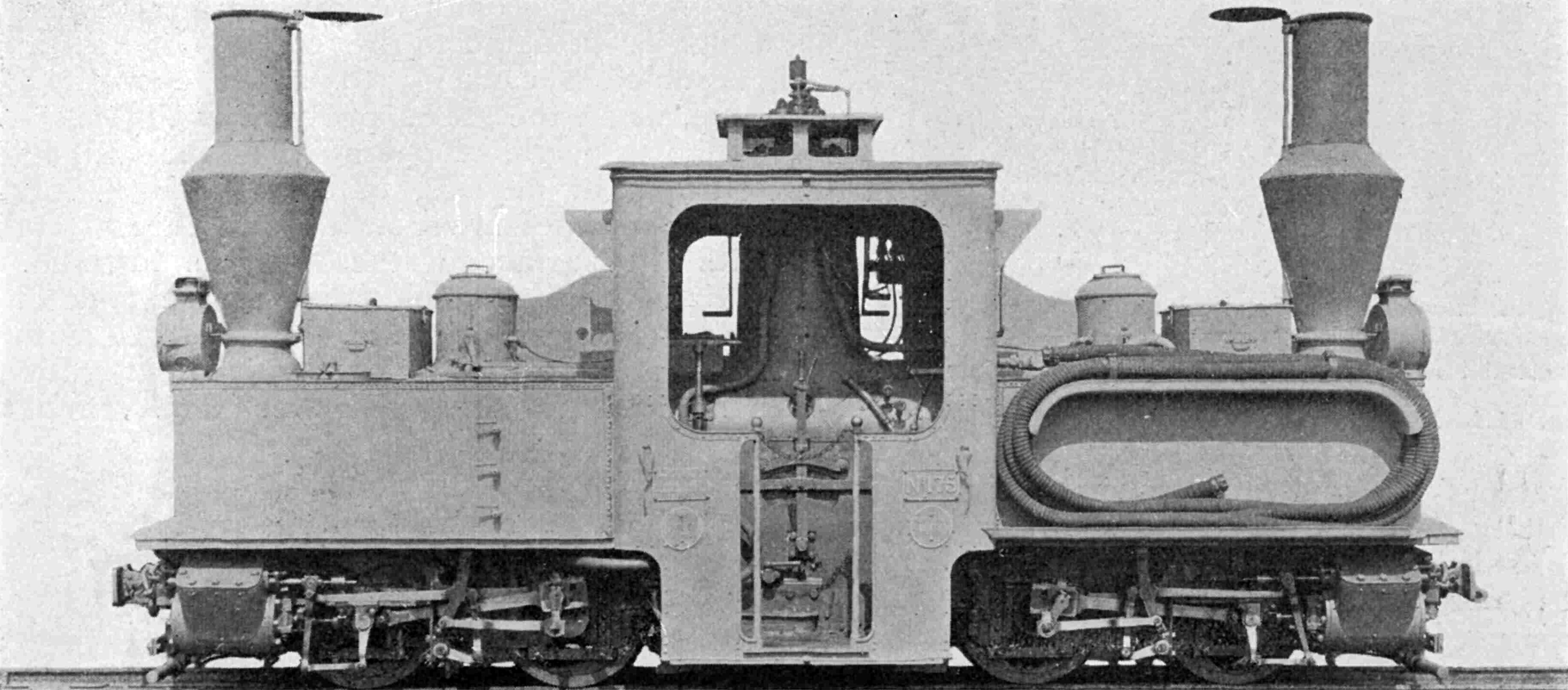 Péchot-Bourdon locomotive (like a Fairlie, but with a single steam dome) built by the Baldwin Locomotive Works of Philadelphia, Pennsylvania, USA.